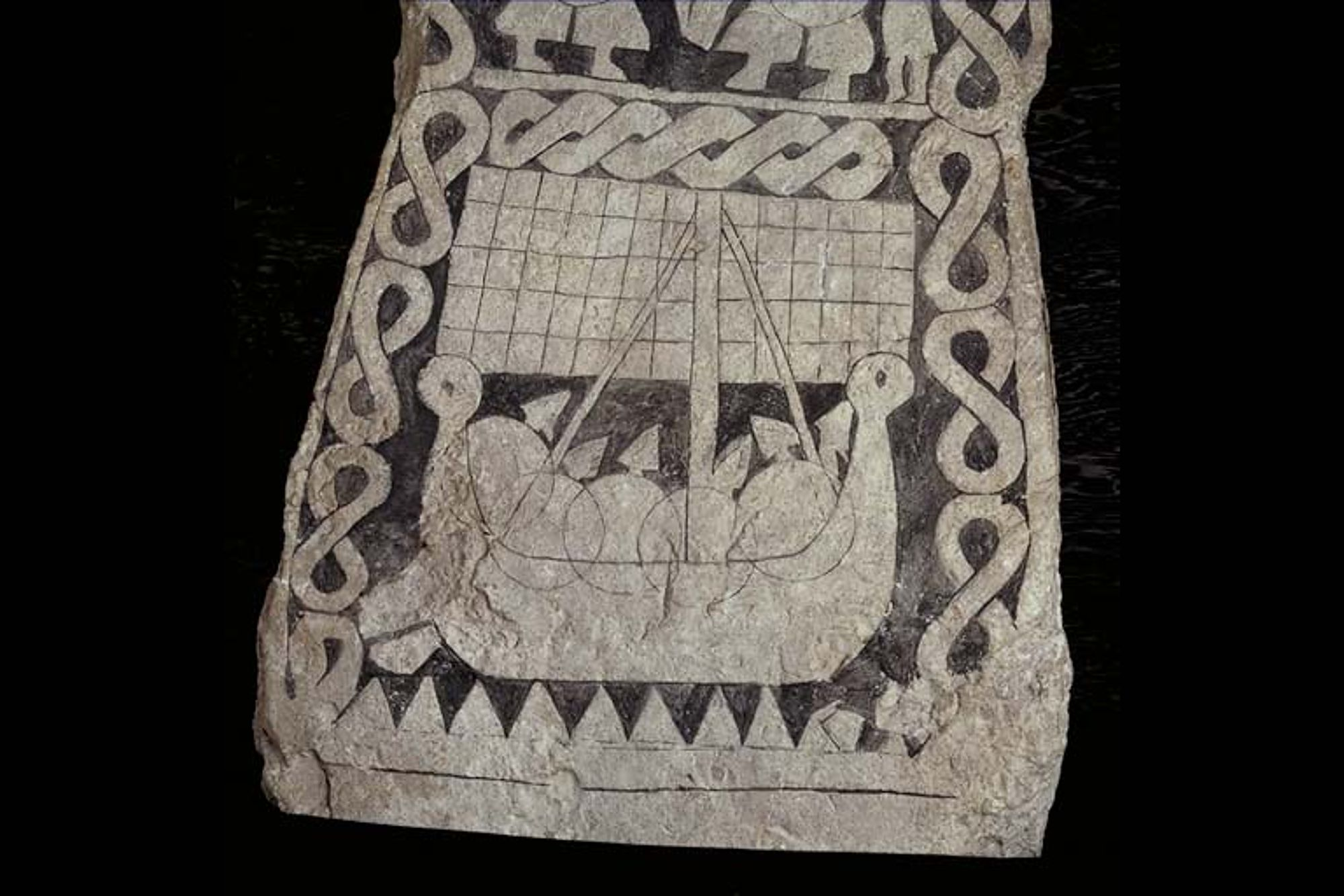 Viking age